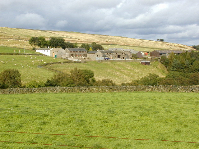 Lane Farm Holiday Cottages on the north side of Rake Dike. Glowering Pennine sky and September sunshine - coldest day for ages.